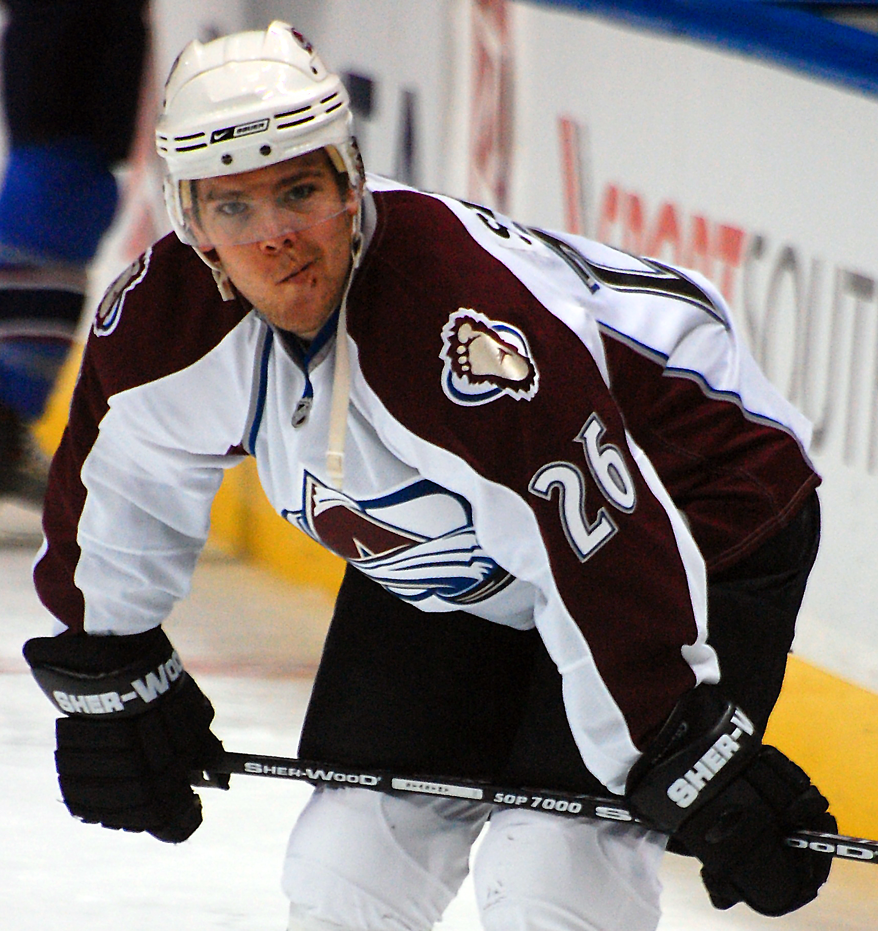 Paul Stastny during the warmp-up at the Thrashers-Avalanche game in Atlanta on 03/11/2008.